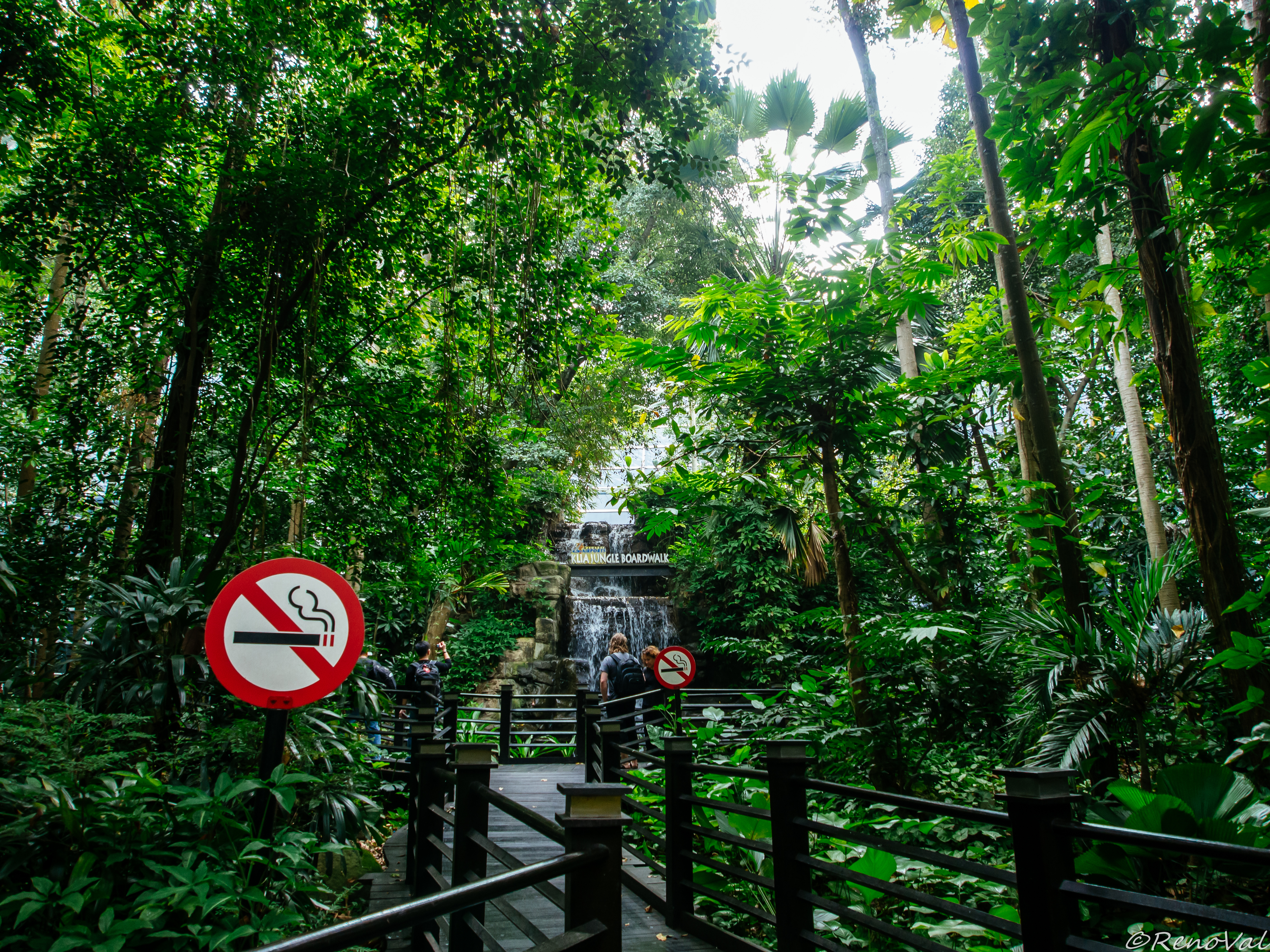 Rainforest in KLIA via Flickr